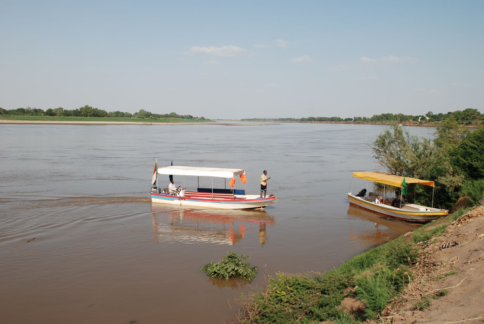 Blue Nile and tourist boats at Wad Medani, Sudan